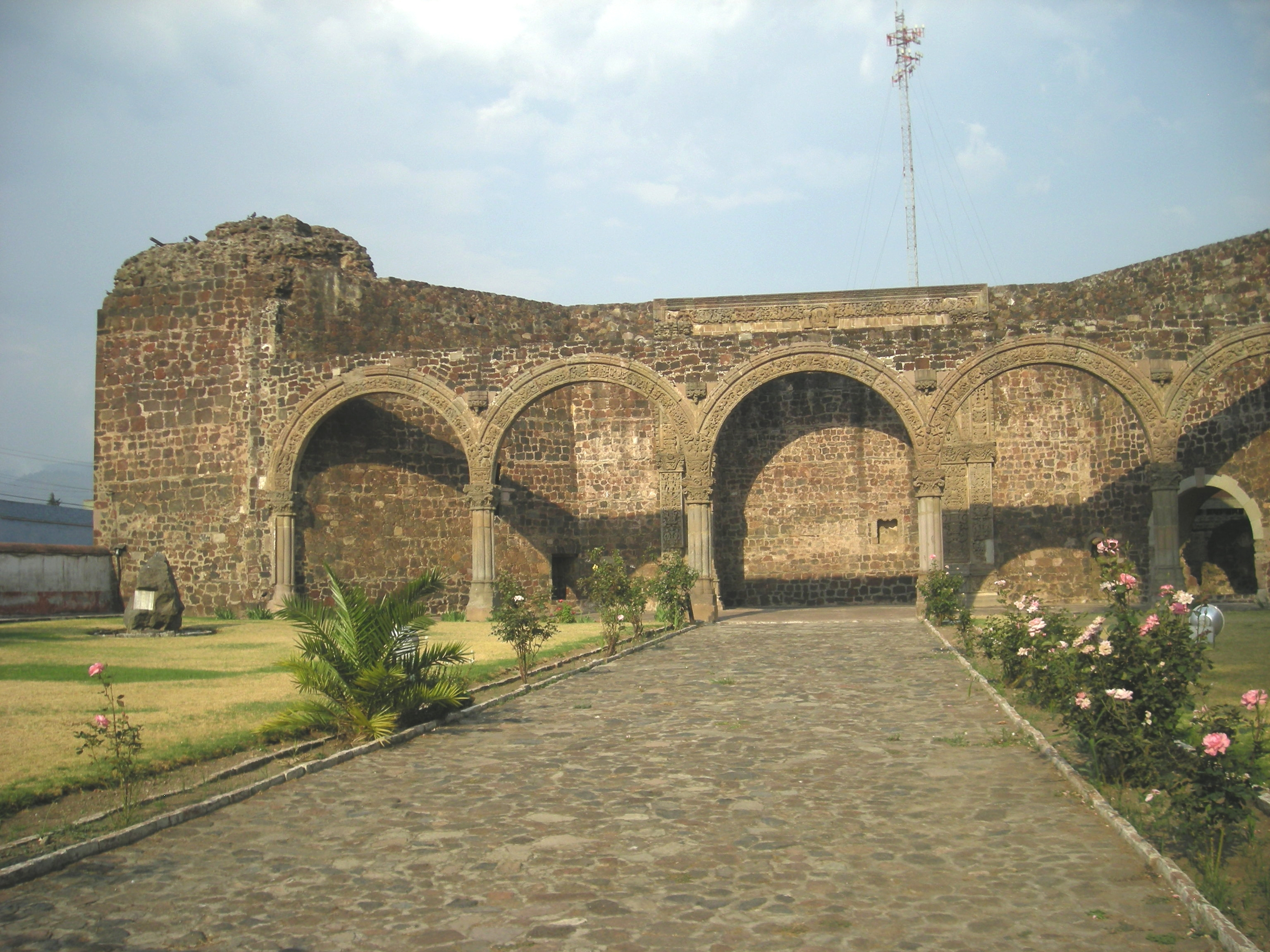 The "Capilla Abierta" or Open Chapel next to the San Luis Obispo Church in Tlalmanalco, Mexico State, Mexico